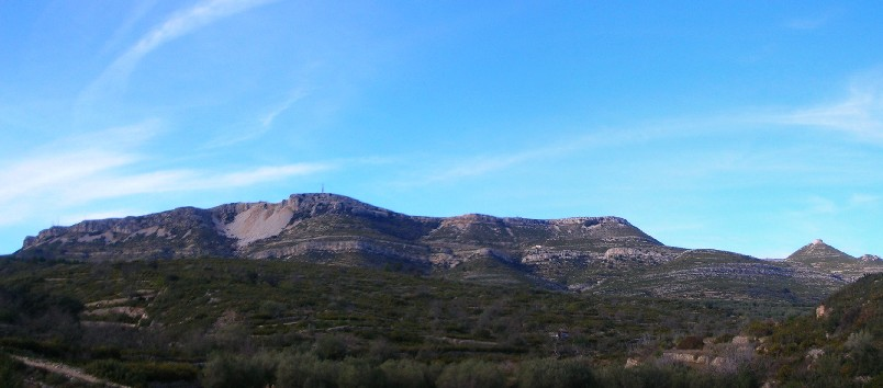 Moles de Xert. Mola Gran showing damage caused by a former stone quarry.